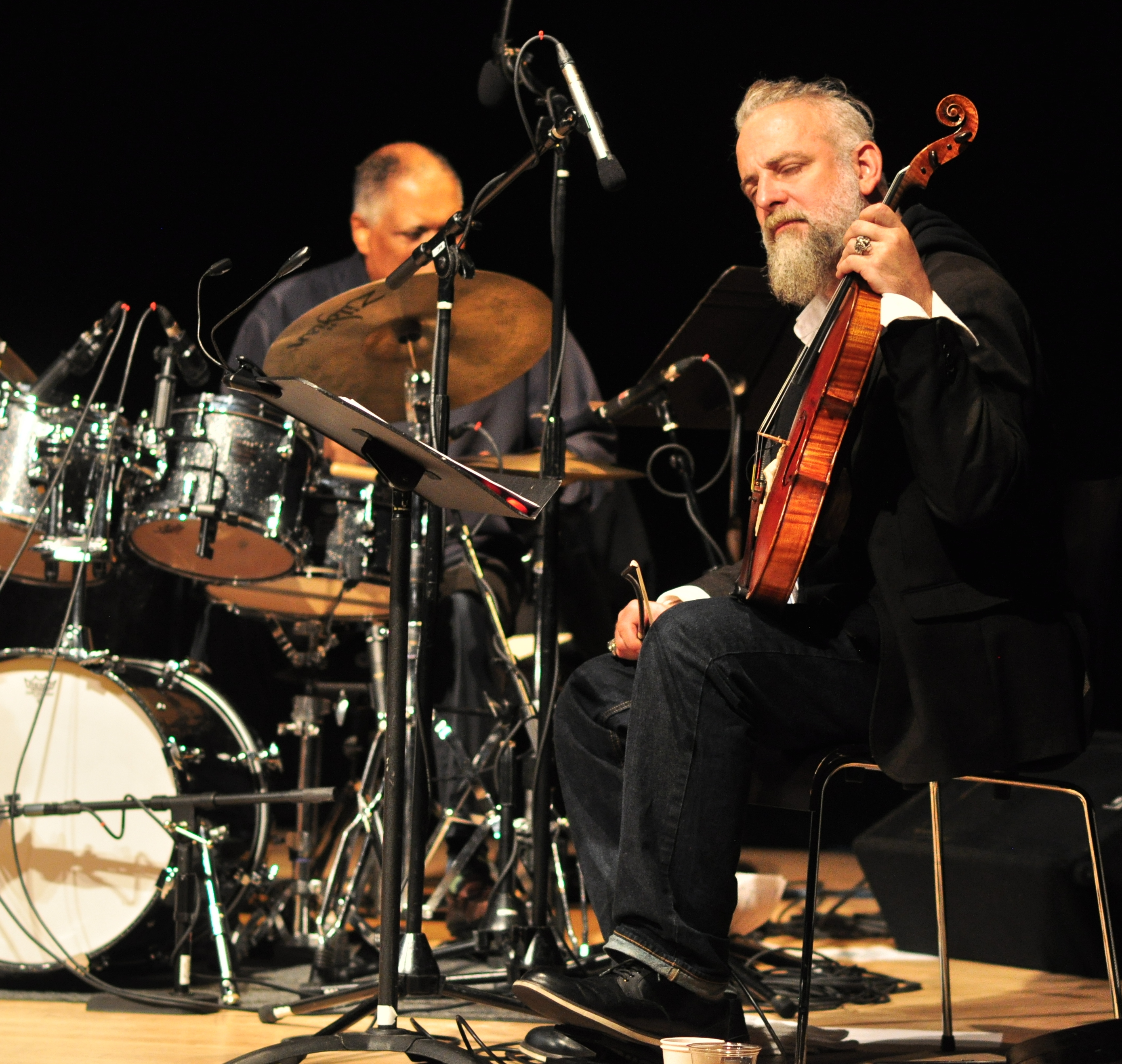 Jazz violist playing with Lucian Ban's group Elevation, performing Ban's Songs from Afar, Plestcheeff Auditorium, Seattle Art Museum, Seattle, Washington, U.S. Drummer Billy Hart in background.